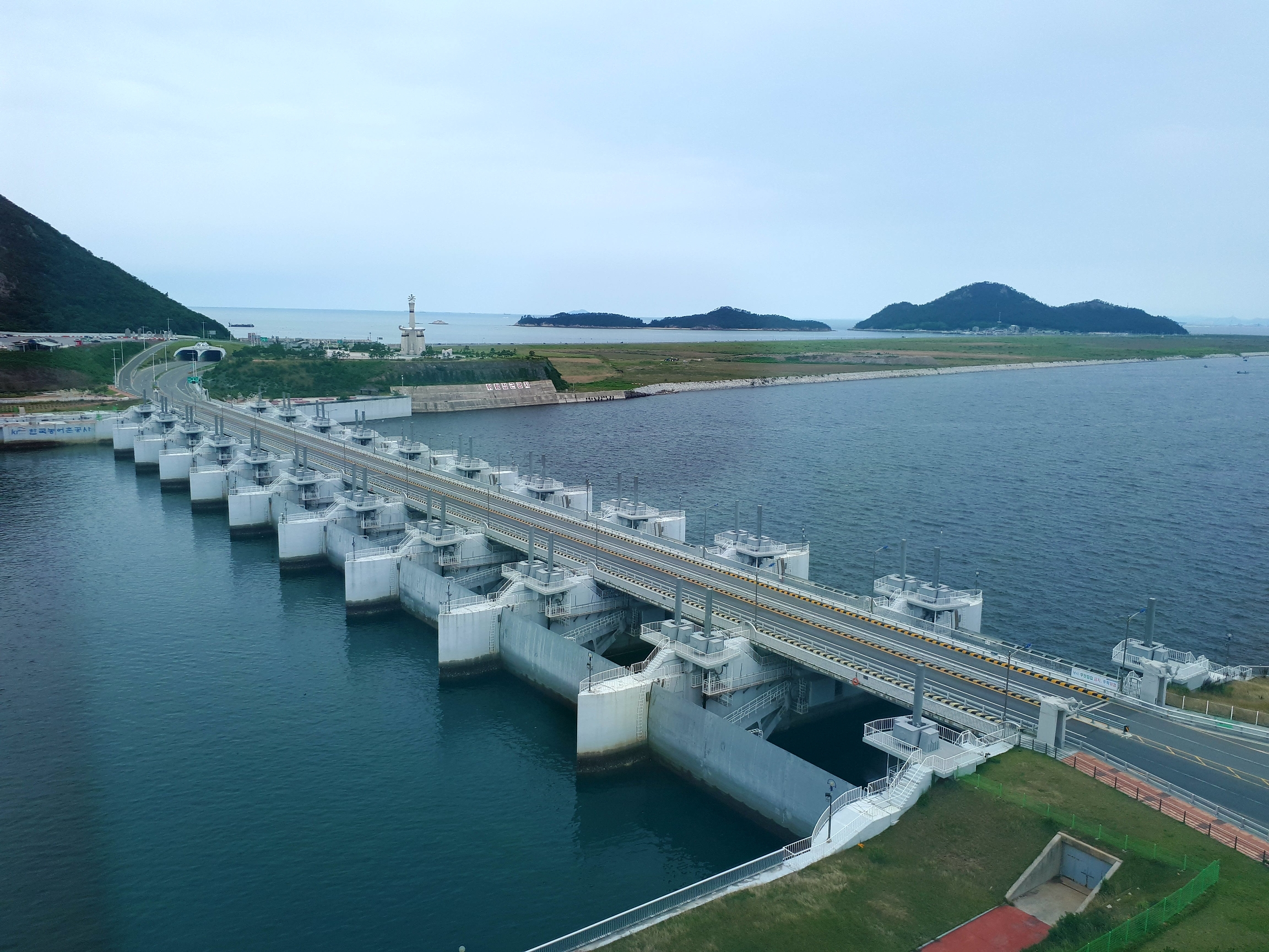 Sinsi sluice gate of Saemanguem Seawall. Located at Sinsi island, Gunsan city, Jeollabuk-do.